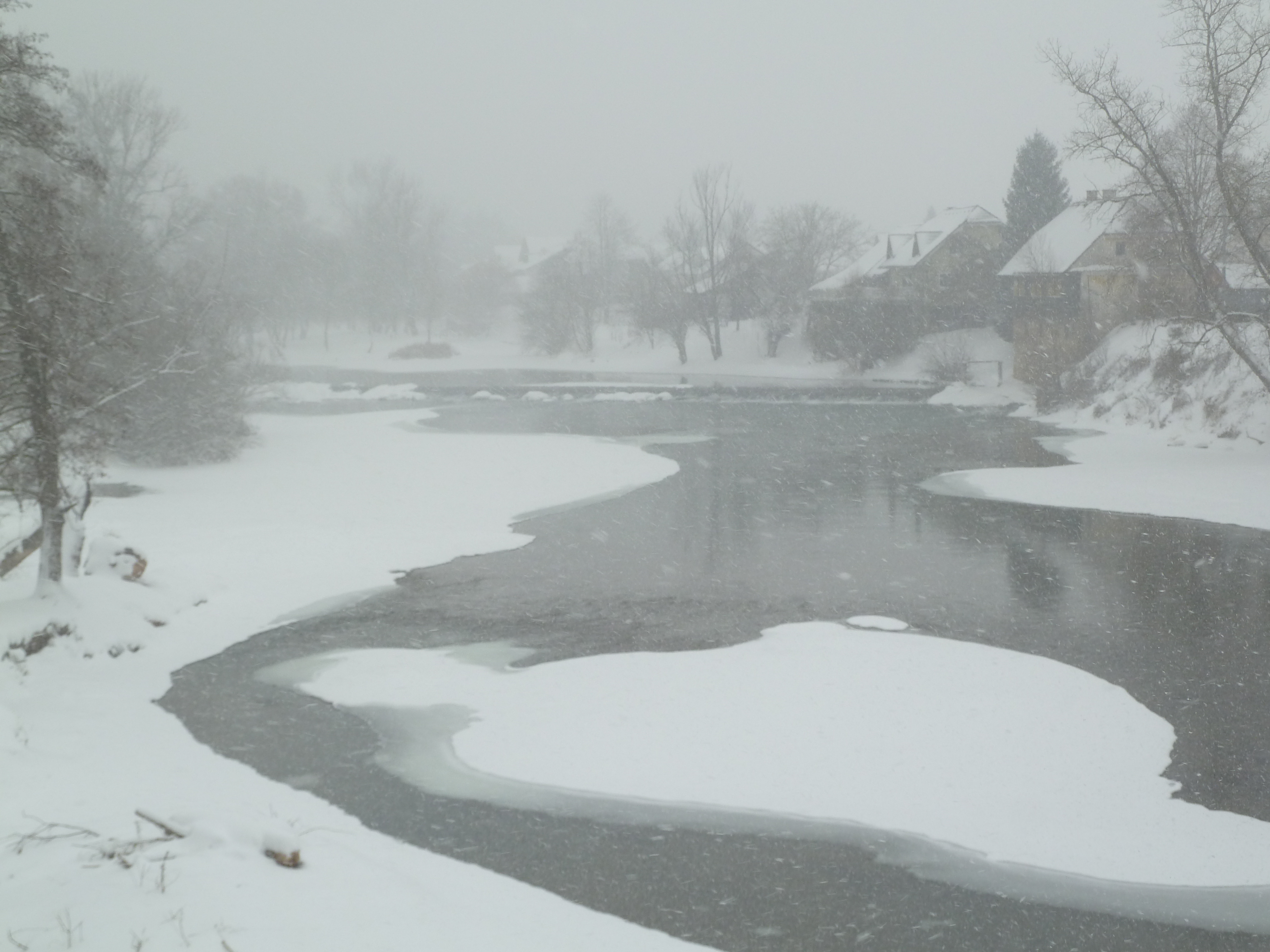 Krka river in Krška vas in snow.